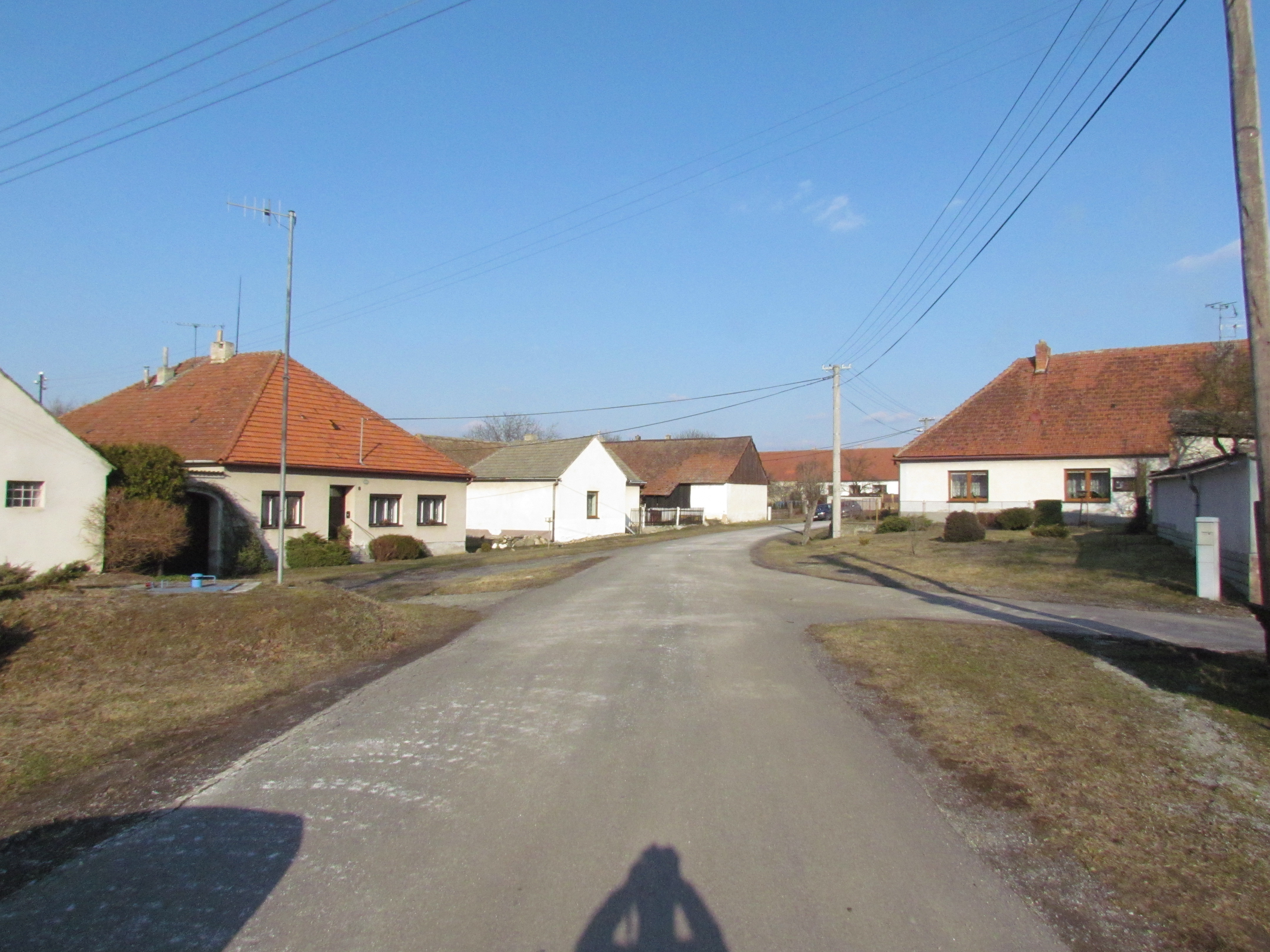 Center of Střížov, Vladislav, Třebíč District.